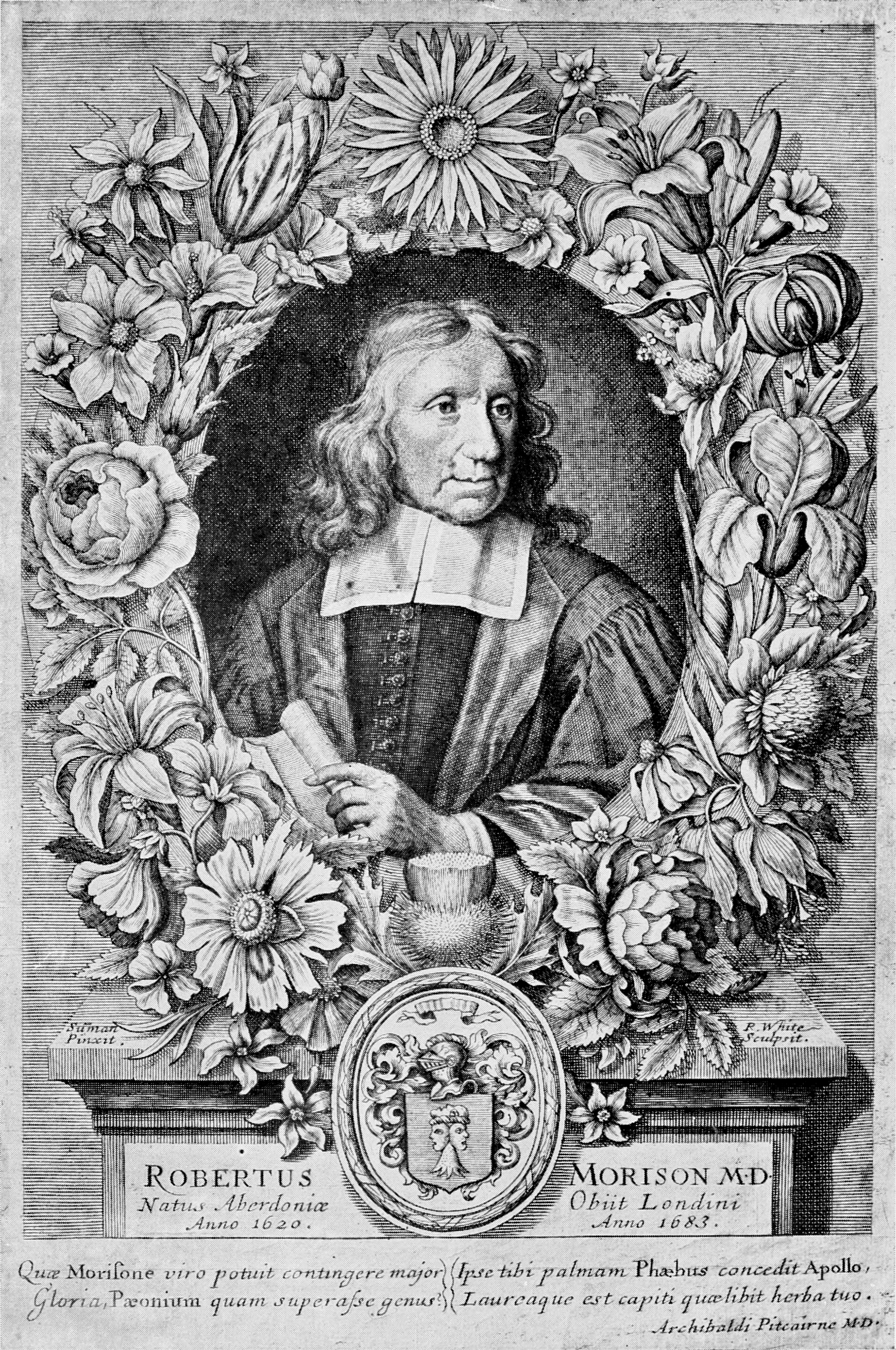 woodcut of Robert Morison (1620–1683)